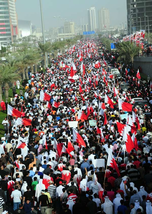 bahrain